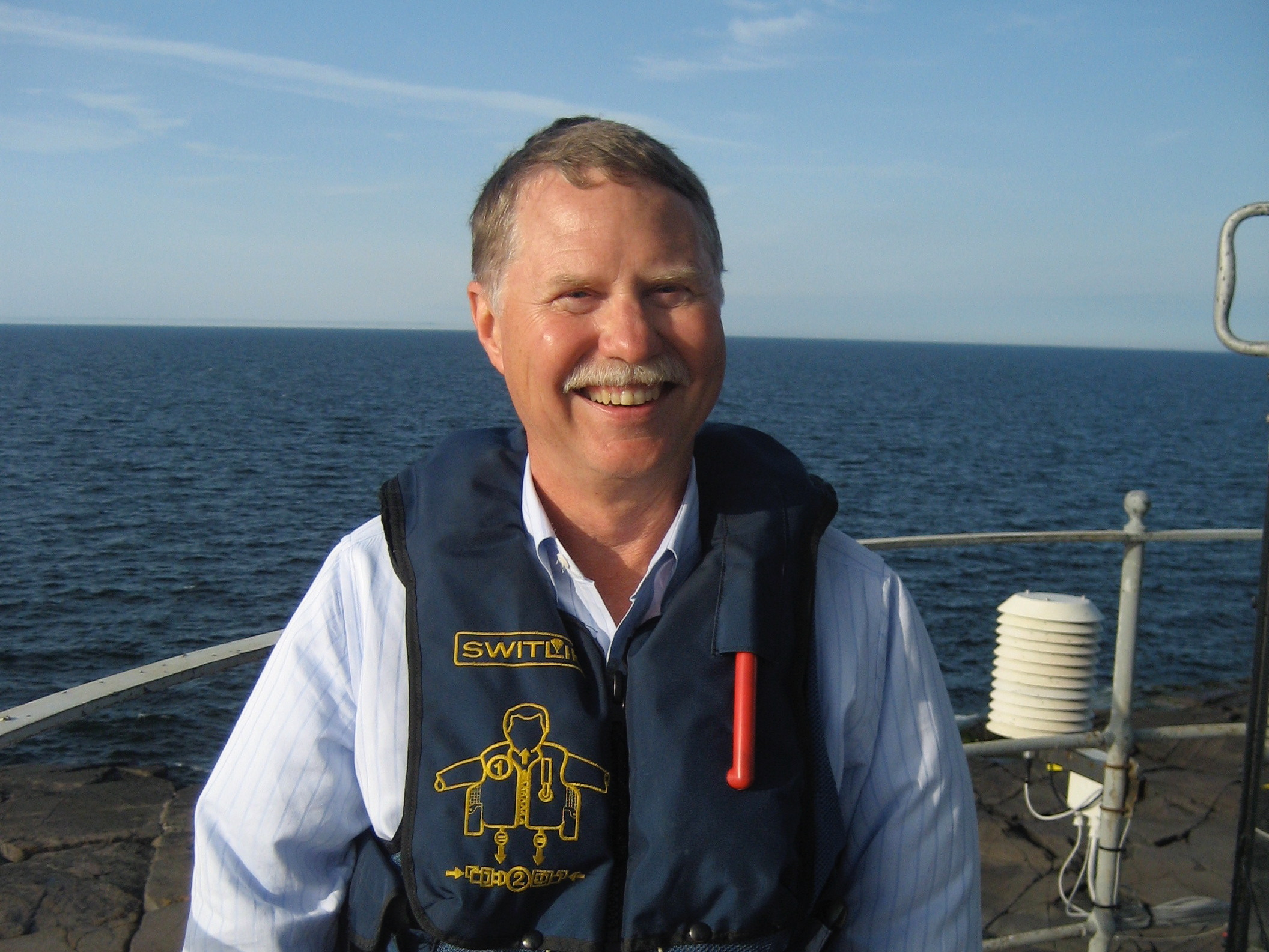 Photo of Don Parrish taken on the Lighthouse of Market Reef